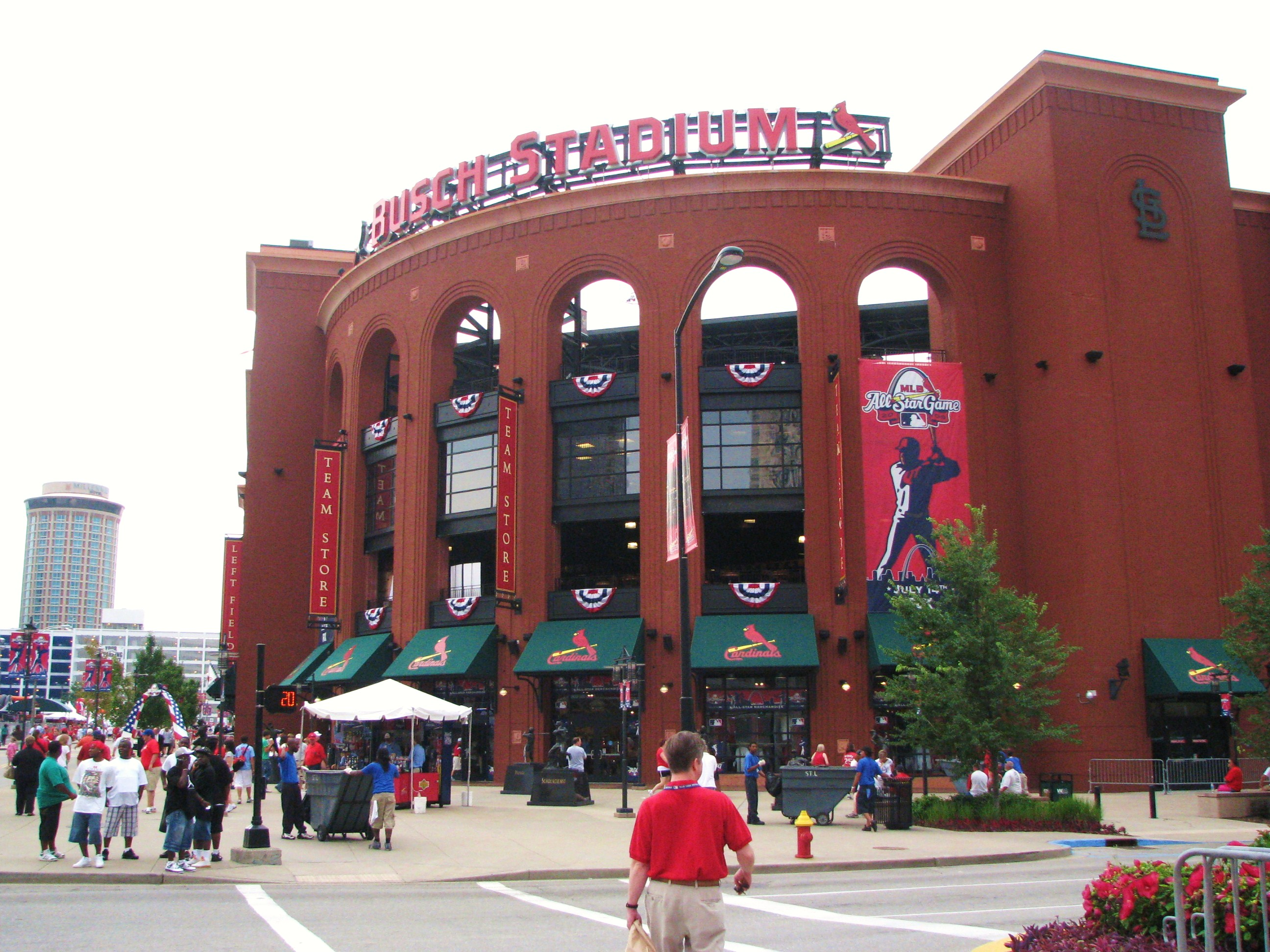 Busch Stadium